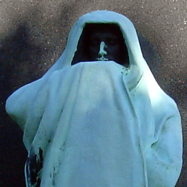 Eternal Silence, (1909), Lorado Taft. Monument to early Chicago settler Dexter Graves in Graceland Cemetery.